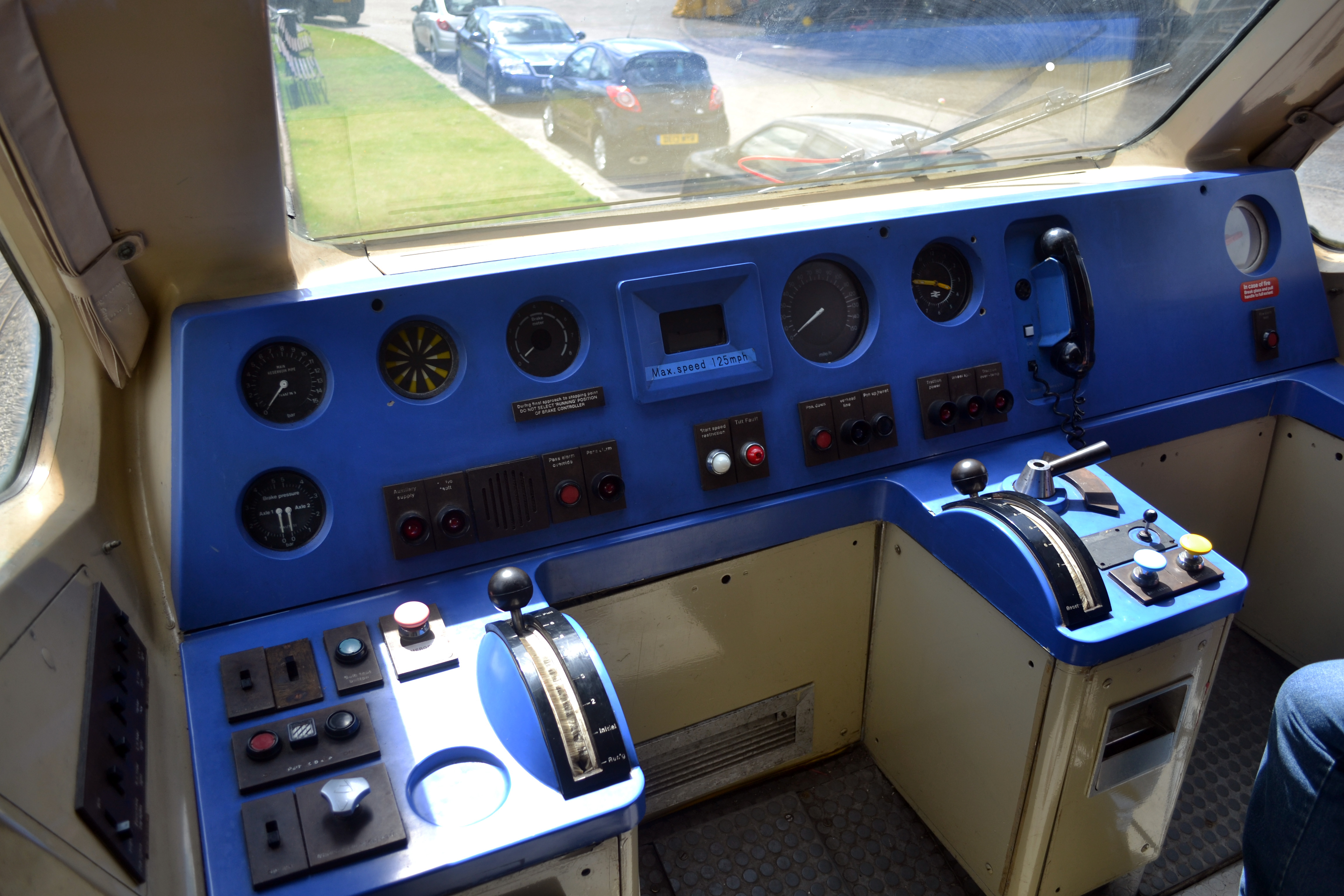 Driving controls of the Advanced Passenger Train (BR Class 370) which is preserved at Crewe Heritage Centre in the UK.